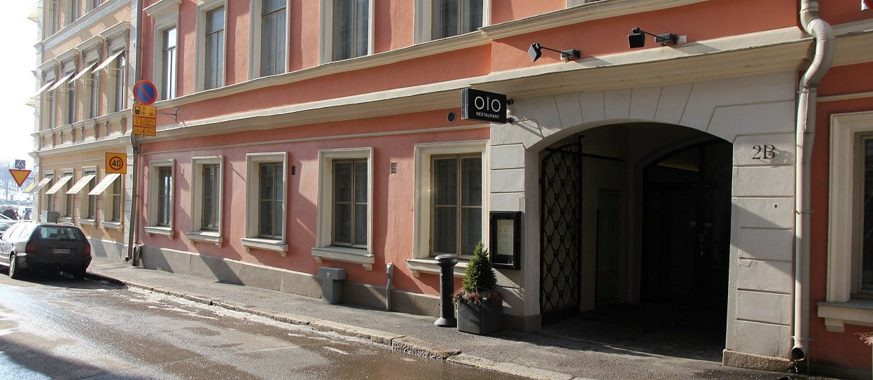 Restaurant Olo Garden et Bar, Helsinki, Finland.